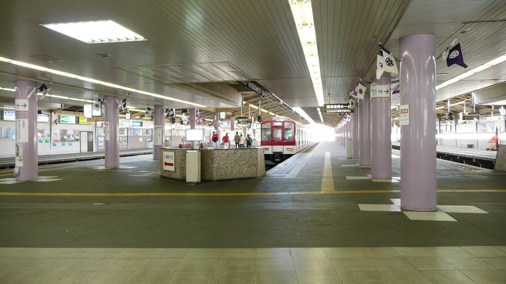 Kinki Nippon Railway,Tenri Line,Tenri Station platform. /天理駅近鉄天理線ホーム